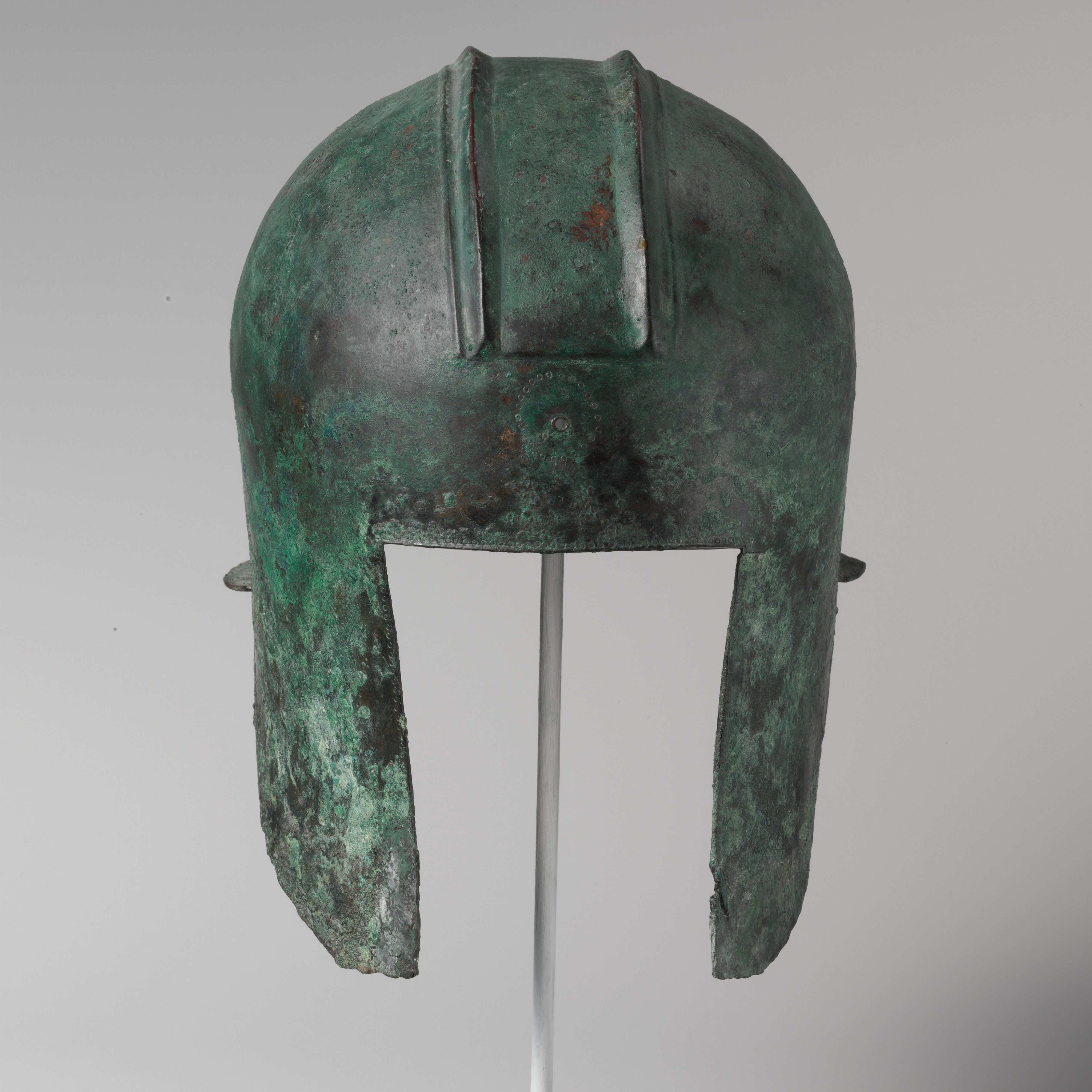 Greek; Helmet of Illyrian type; Bronzes